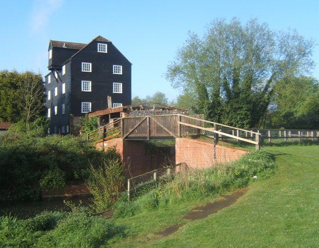 Bosmere Mill by the Gipping A fine old mill building, one of several along the length of the River Gipping.